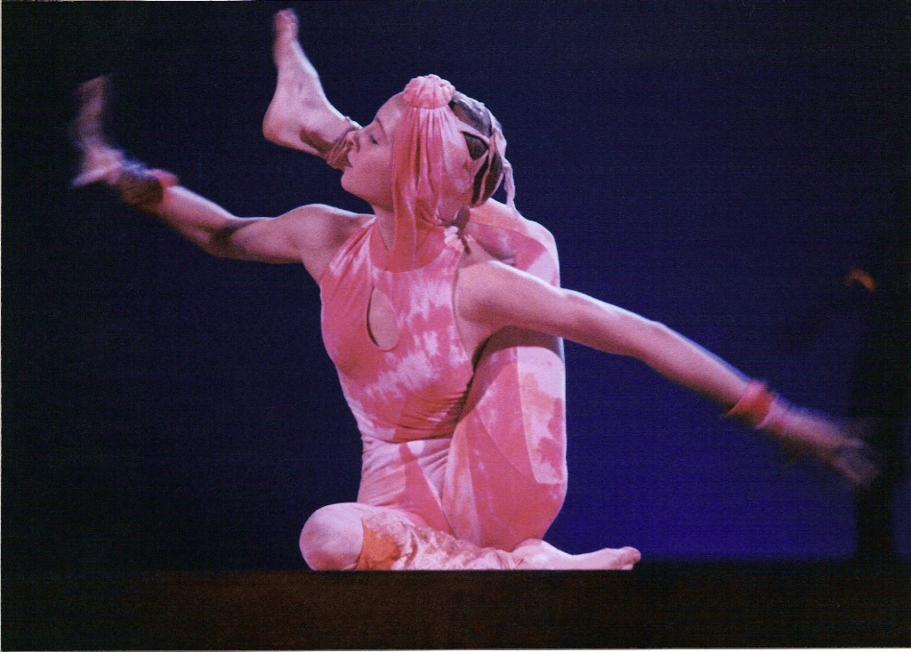 Nouvelle Experience Finale 1994, Cirque du Soleil.